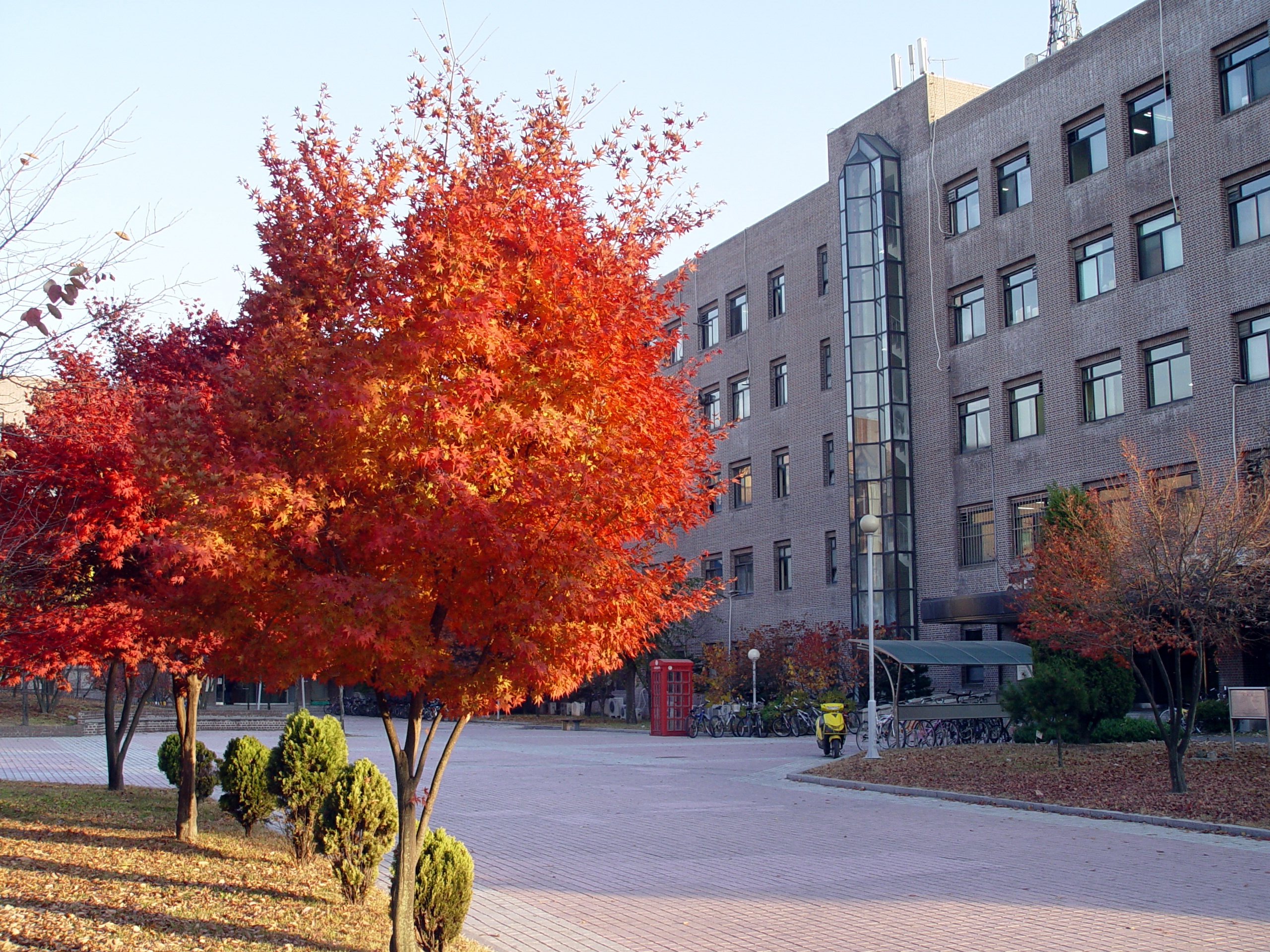 2nd Building of Engineering School with trees